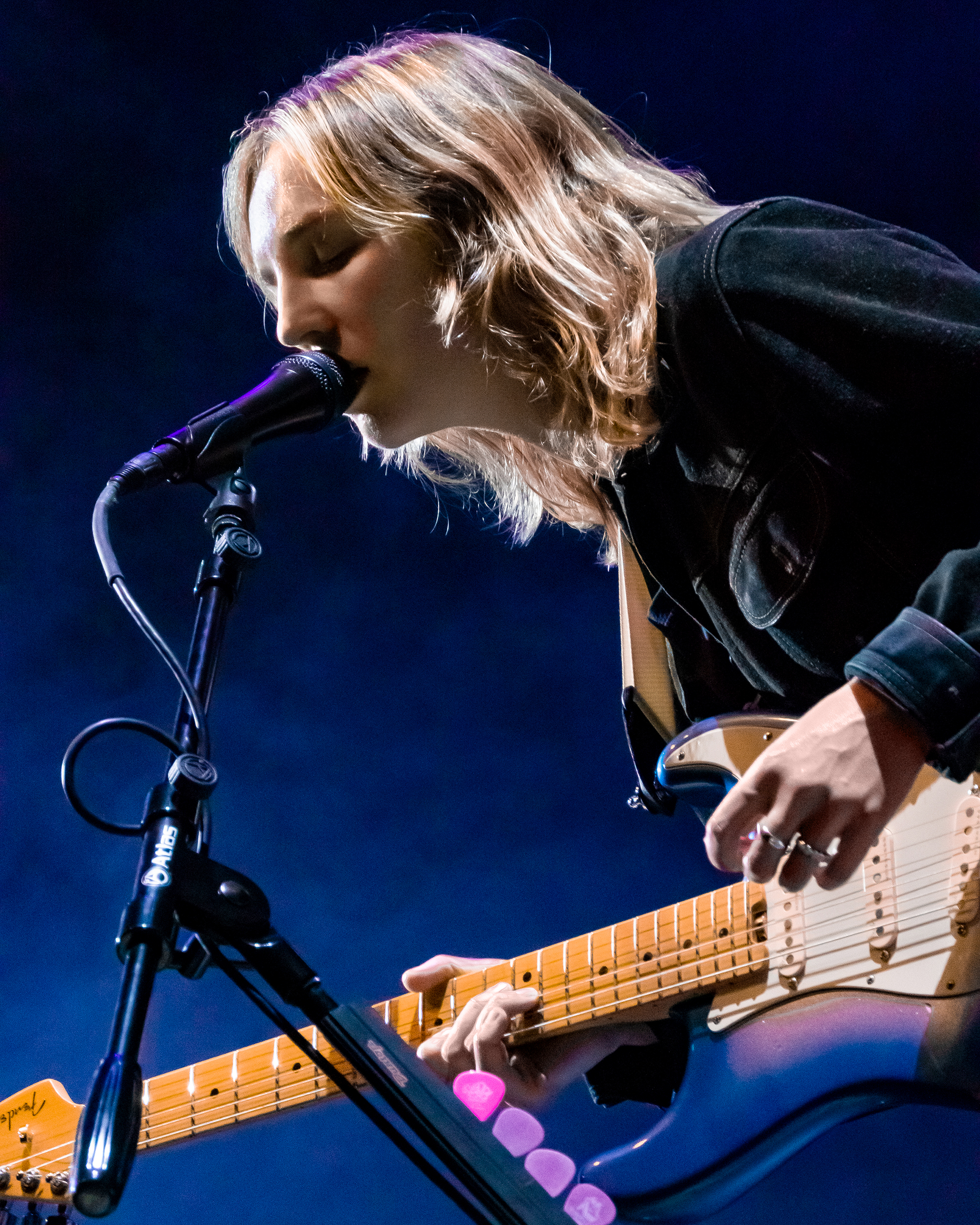 The Japanese House performing live at The Wiltern in Los Angeles on 10/12/2019.